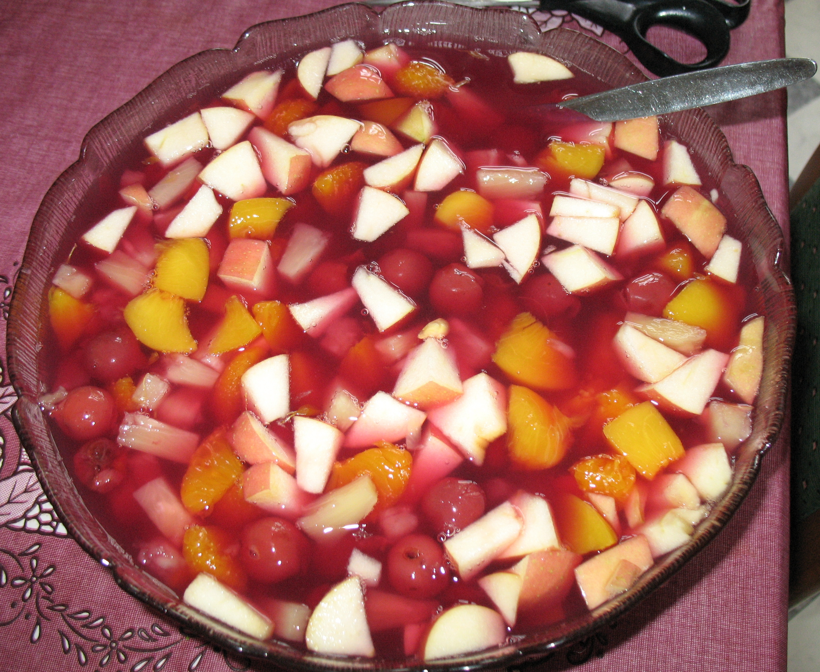 a fruit salad